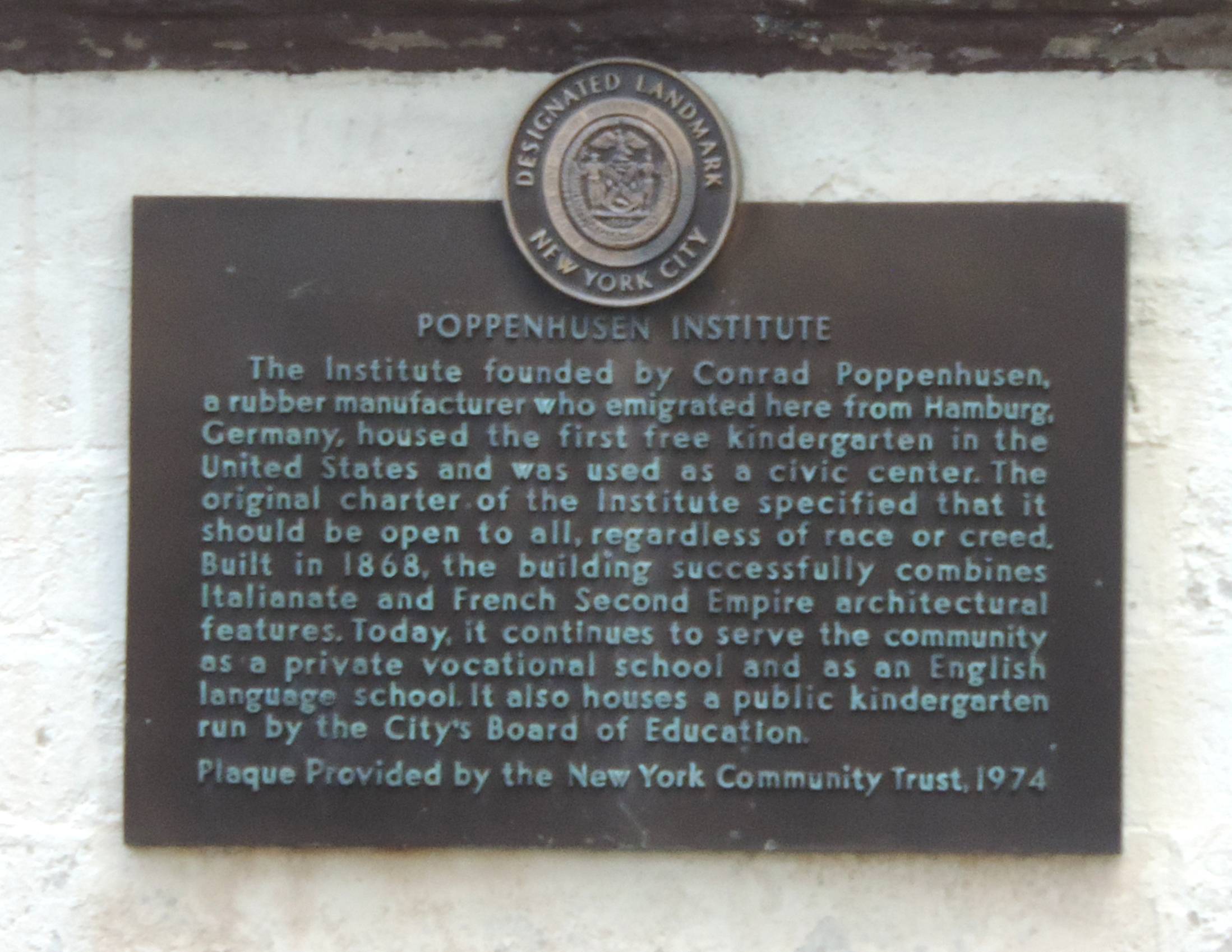 Looking south from sidewalk at plaque on northwest corner of Poppenhusen Institute